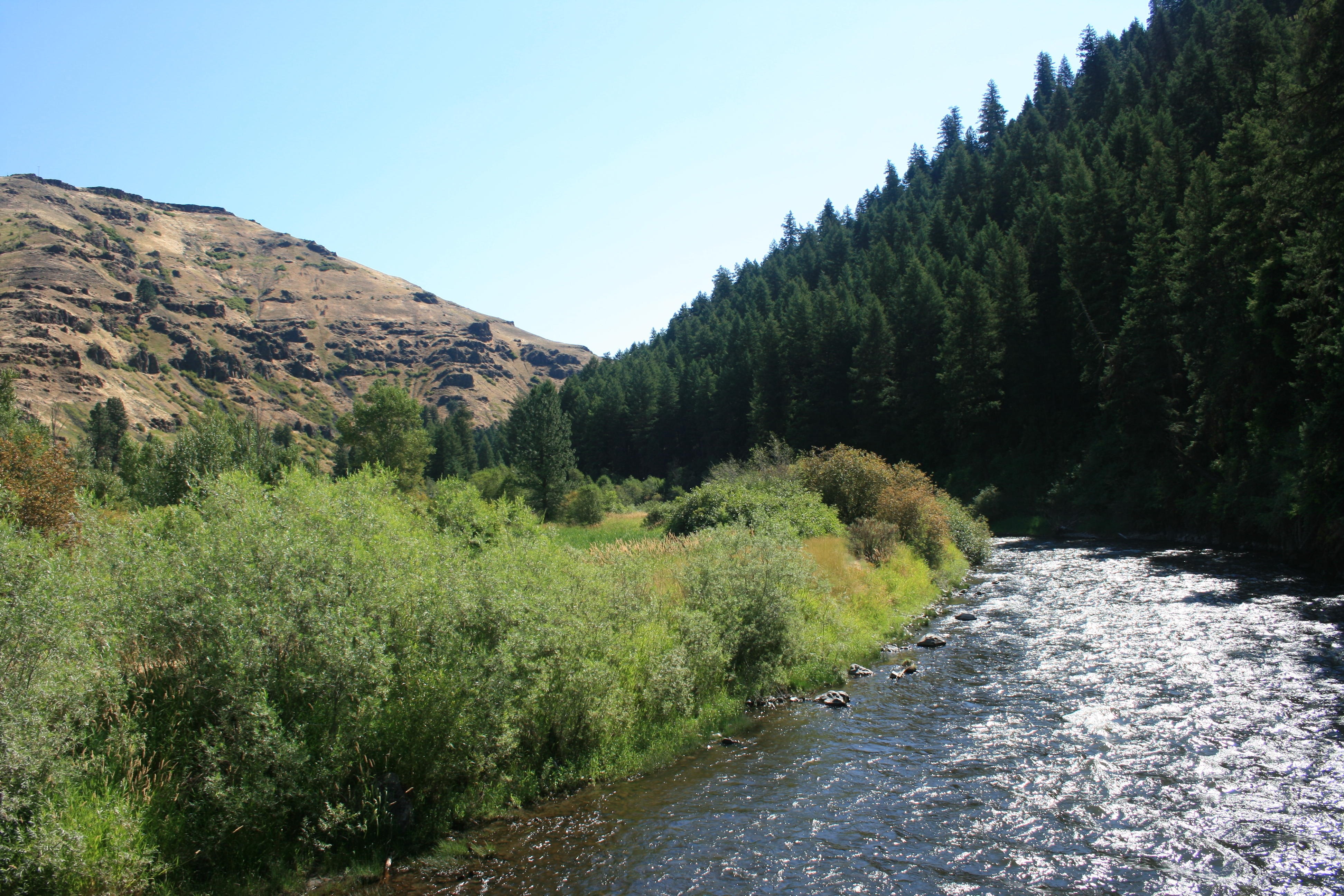 For use is in the Minam River article. Photo near the confluence of the Minam with the Wallowa River in Oregon. Photo taken August 6th, 2011 by uploader. Skål - Williamborg (talk) 04:55, 8 August 2011 (UTC)